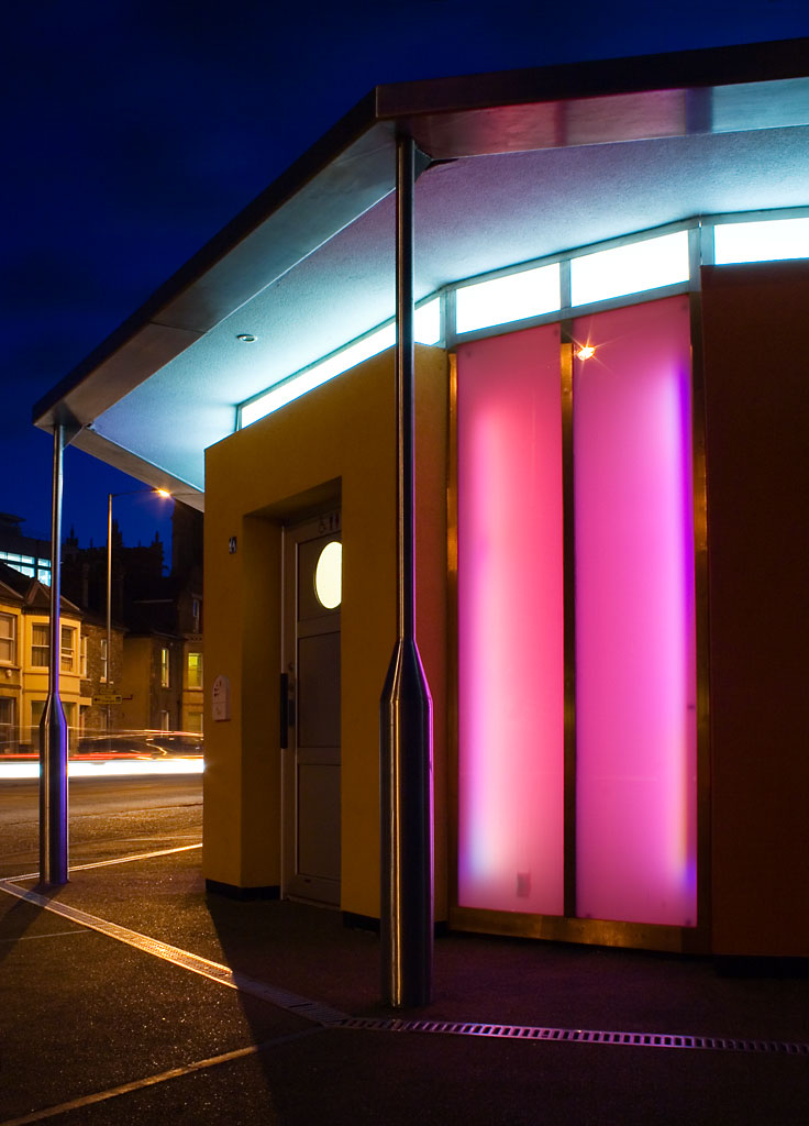 Public toilets on Parker's Piece, Cambridge. Detail of door and light panel.